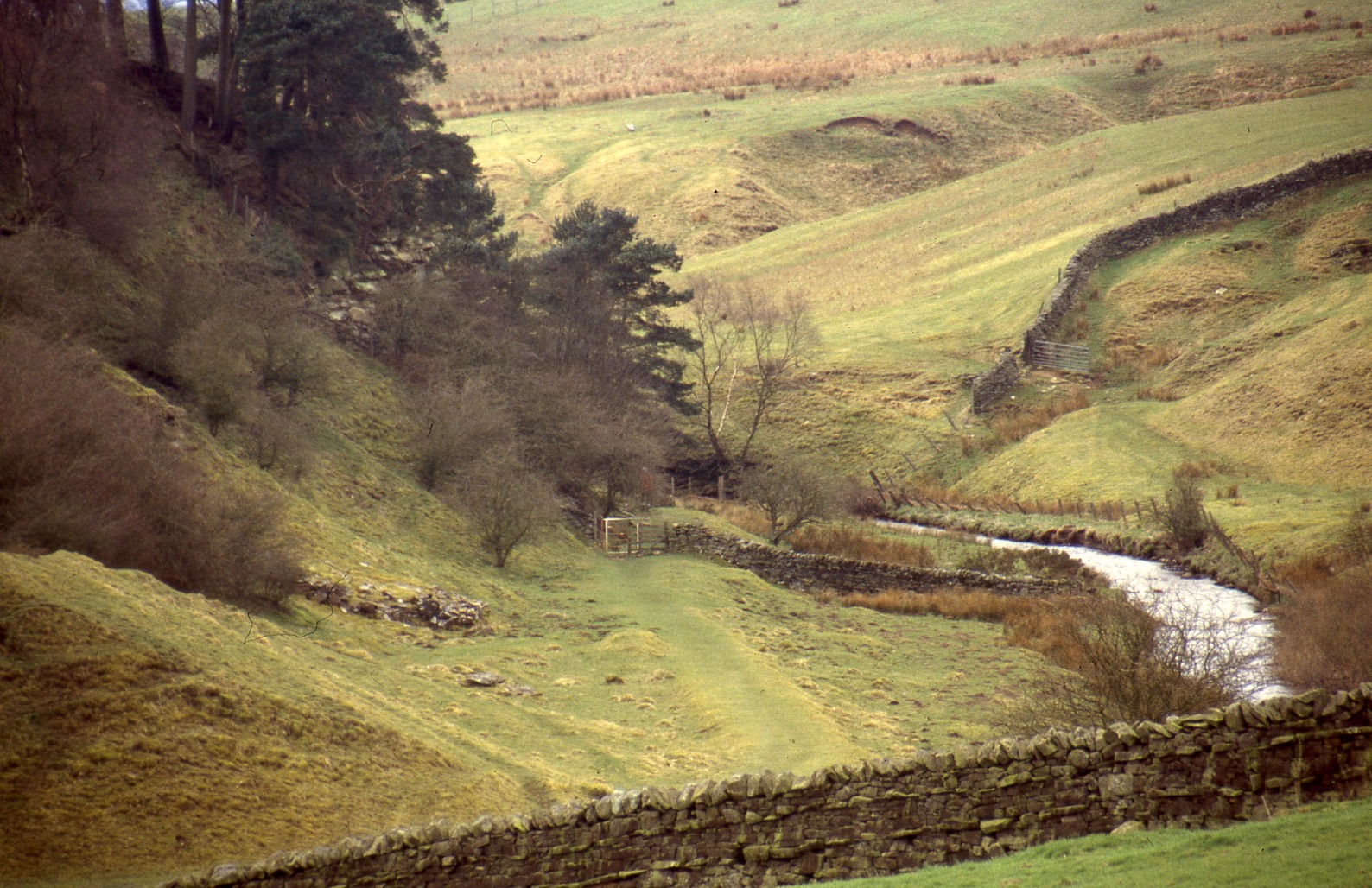 Haltwhistle Burn north of Haltwhistle. Location: Haltwhistle, Northumberland.